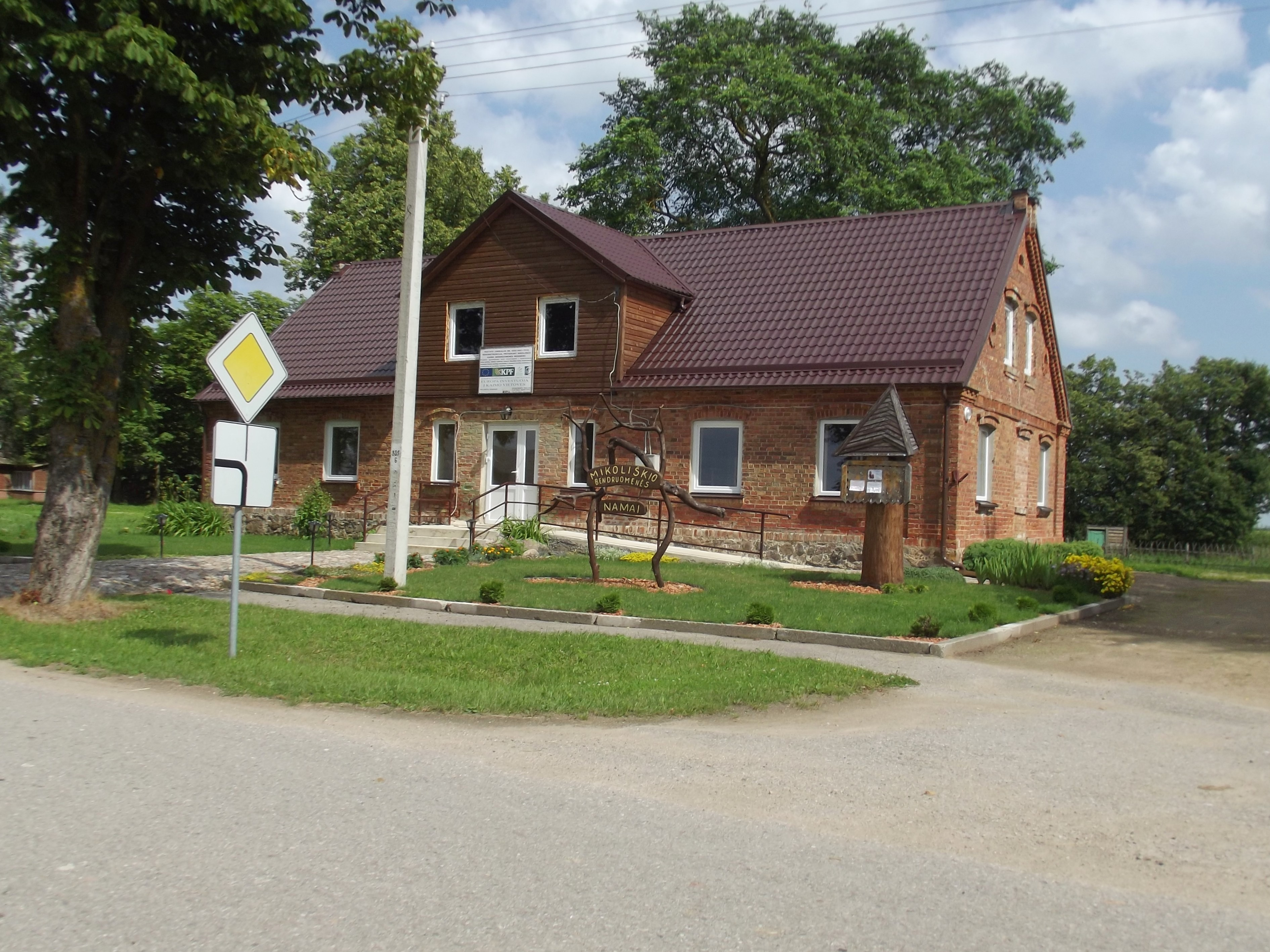 Mikoliškis, community center, Pakruojis district, Lithuania